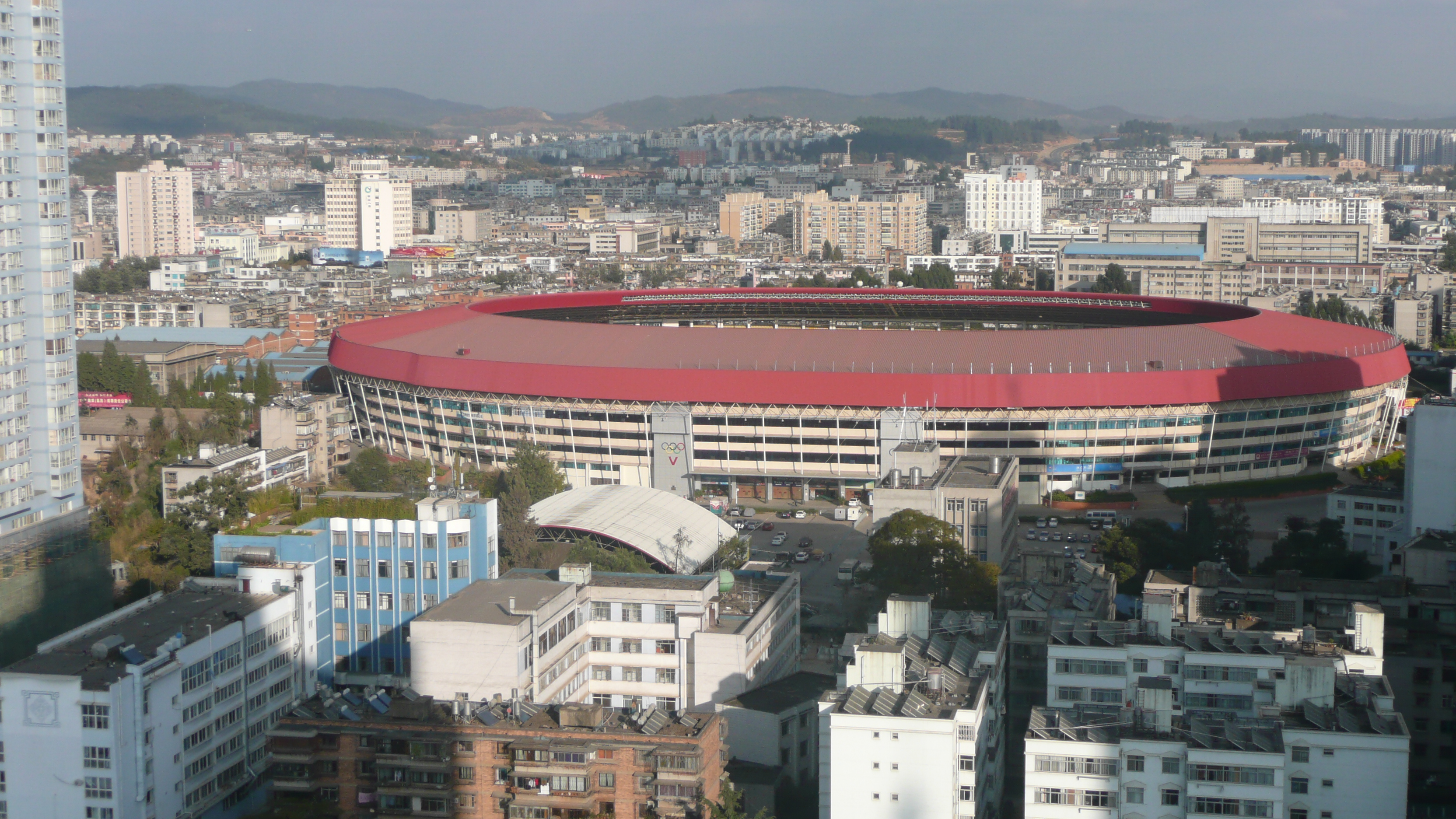 Kunming - Capital of the Chinese province Yunnan